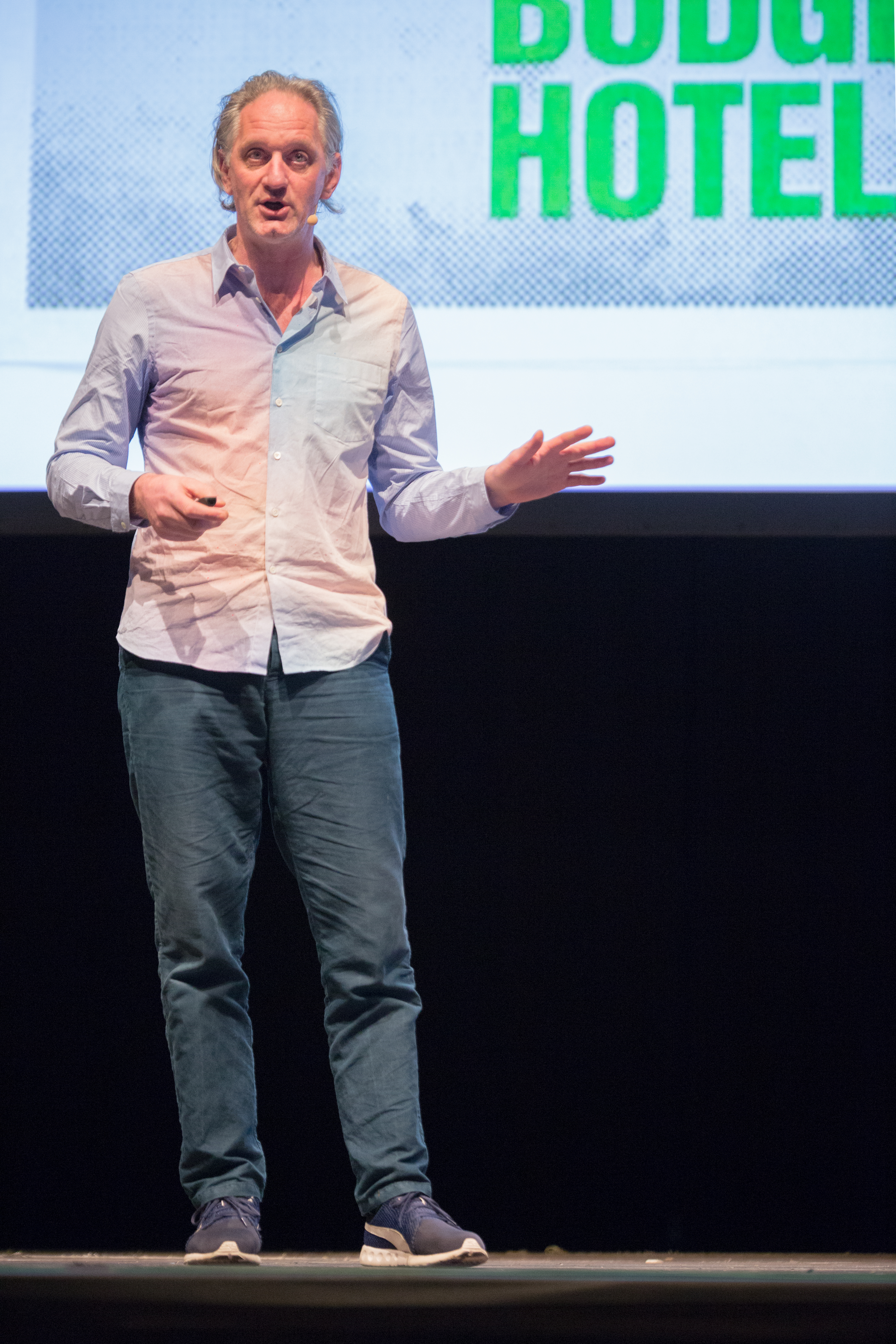 Erik Kessels at the See-Conference 2016 in the Schlachthof Wiesbaden